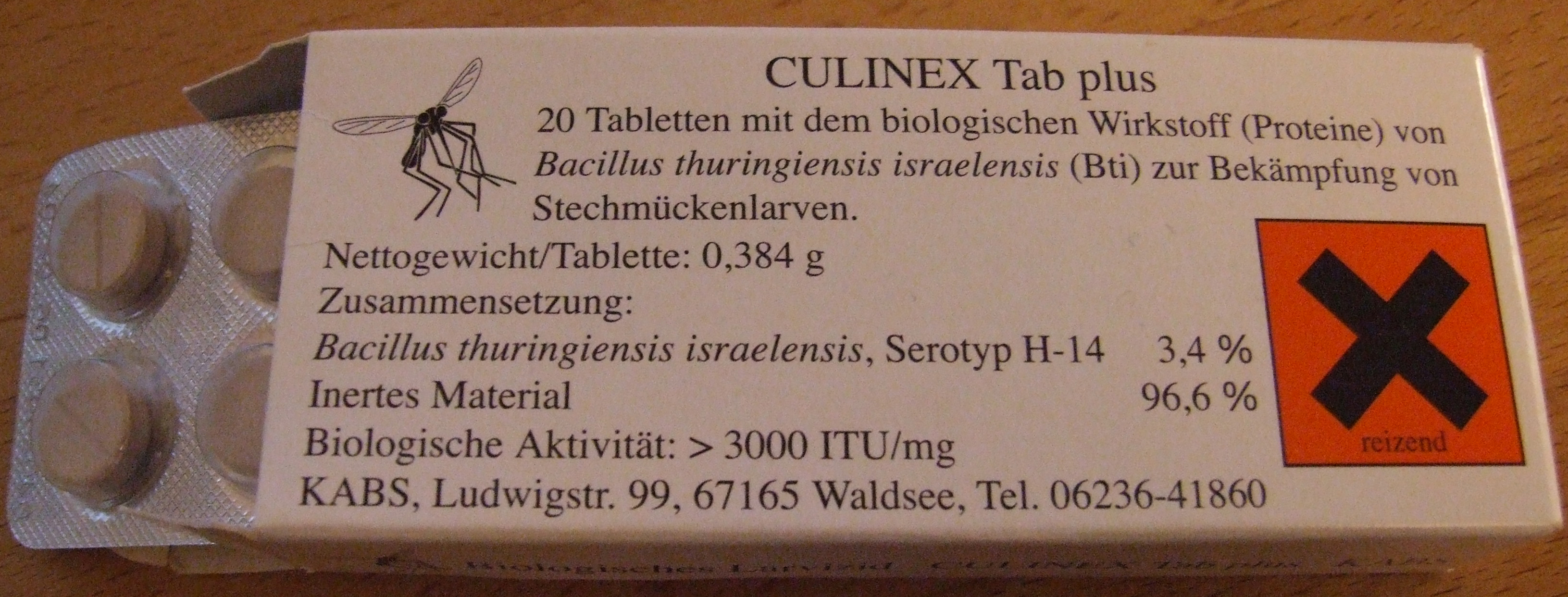 Larvicide